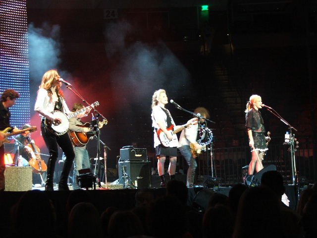 Dixie Chicks in Austin, TX. Photo - Ron Baker.